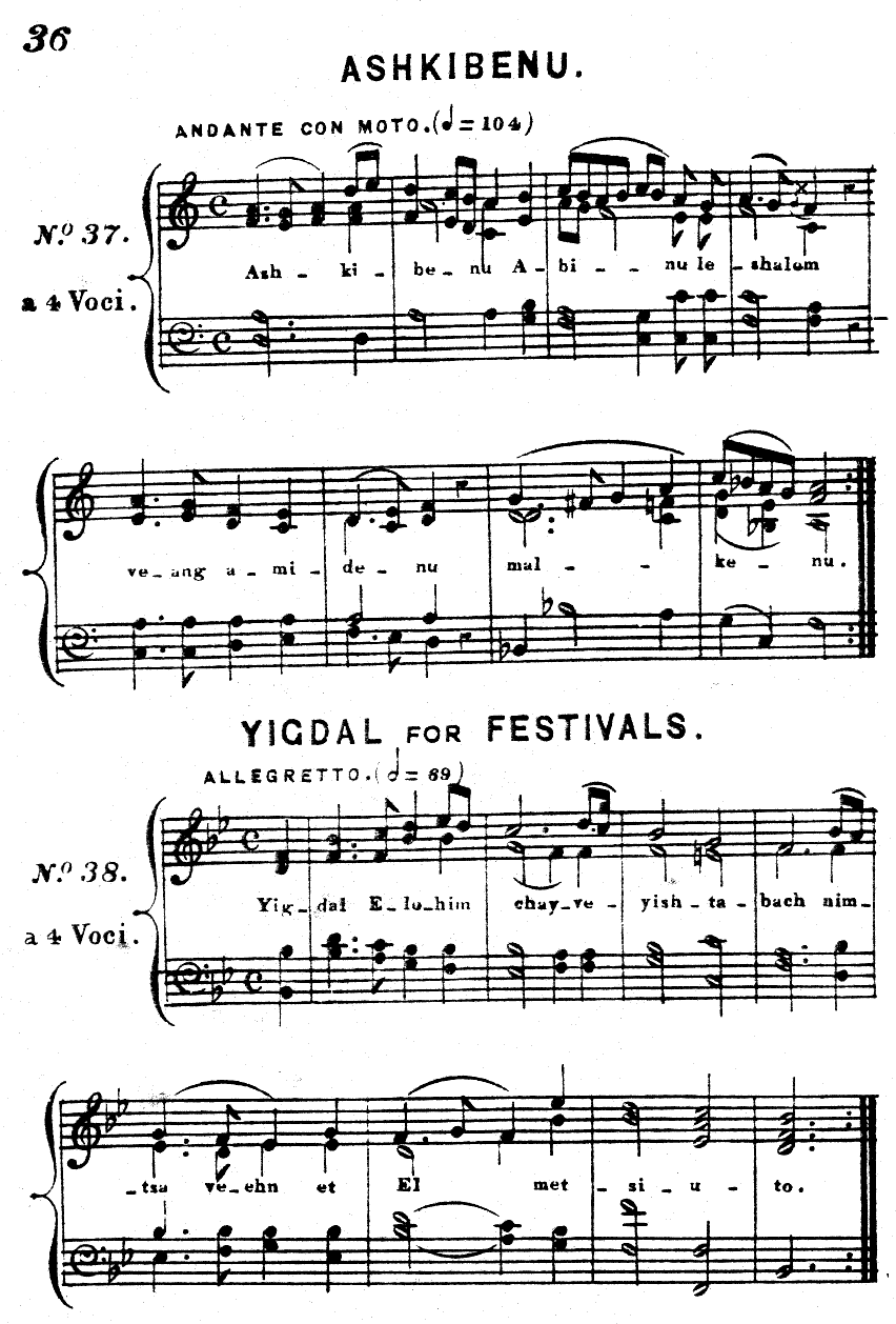 Ashkibenu (Hashkibénu, Hashkiveinu) and Yigdal for festivals from צללי זמרה - Sephardi melodies, being the Traditional Liturgical Chants of the Spanish and Portuguese Jews’ Congregation, London.